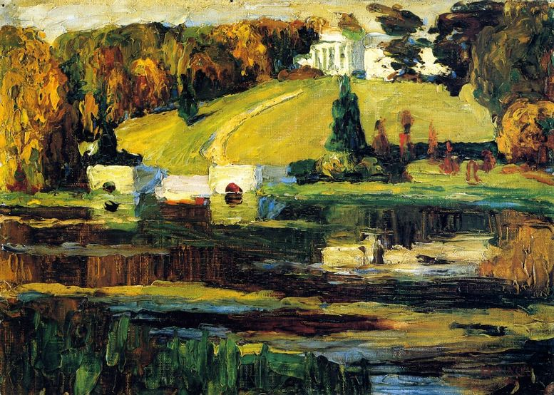 Akhtyrka, Städtische Galerie im Lenbachhaus und Kunstbau, München, Germany